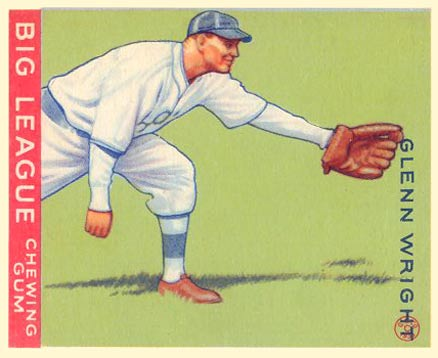 1933 Goudey baseball card of Glenn Wright of the Brooklyn Dodgers #143. PD-not-renewed.